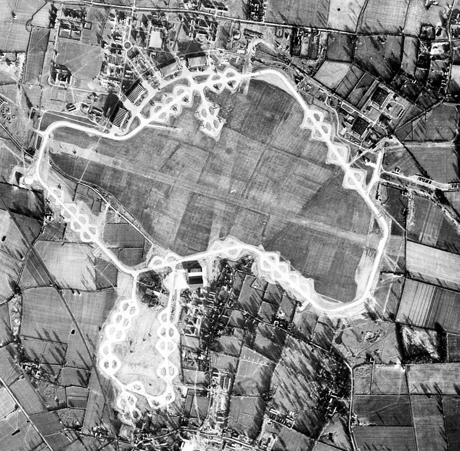 Aerial photograph of RAF Watton airfield and the USAAF 3d Strategic Air Depot. The bomb dump to the right of the perimeter track; the 3d SAD is at the bottom (south) of the image, 25 January 1944. Photograph taken by7th Photographic Reconnaissance Group, sortie number US/7PH/GP/LOC160. English Heritage (USAAF Photography).